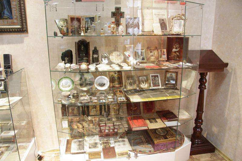 Diocesan exhibition 'Russian Calvary'